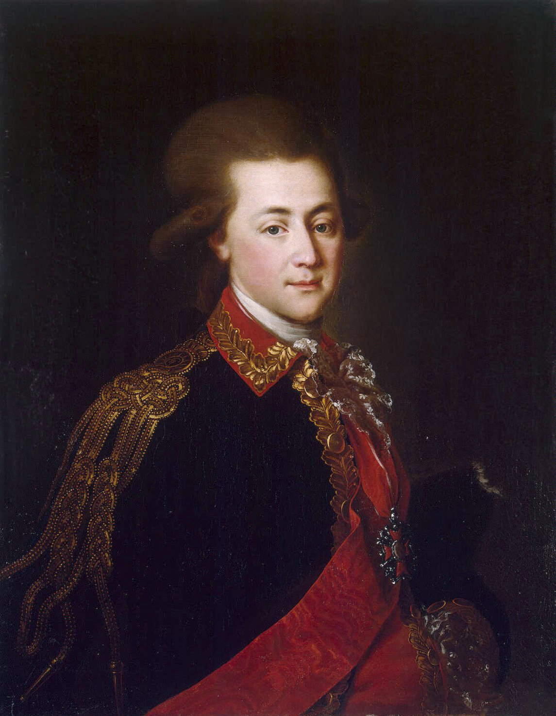 Alexander Lanskoi oil on canvas 84 x 66.5 cm 1783/1784